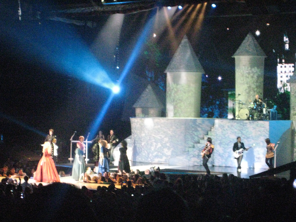 Taylor Swift during a Fearless Tour concert in Los Angeles, California.